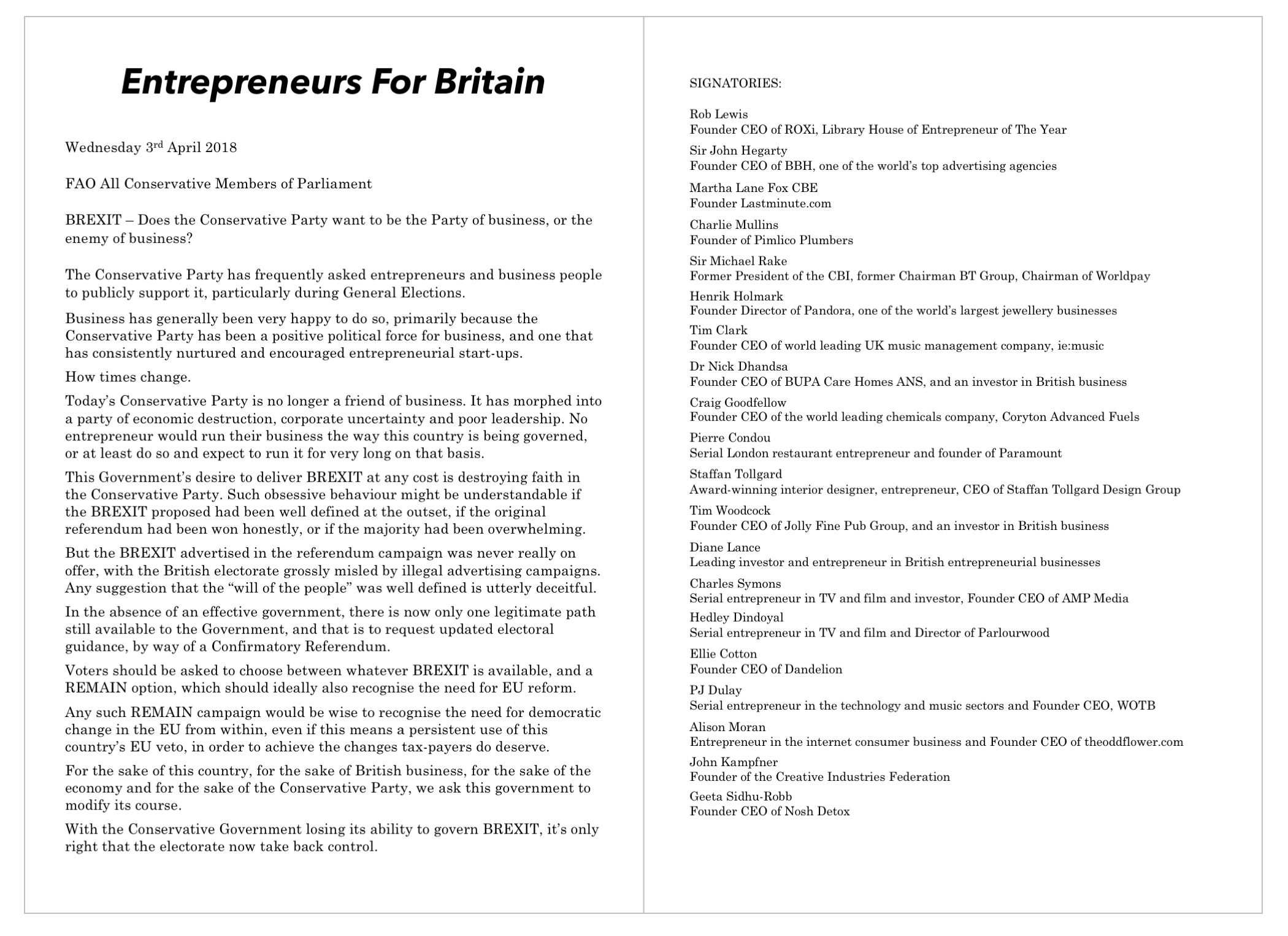 This letter, authored by British internet entrepreneur Rob Lewis, CEO of ROXI and 19 other leading British entrepreneurs including Martha Lane Fox CBE and former CBI president Sir Michael Rake was sent to Conservative MPs on Wednesday 3rd April 2019, warning that British business is losing faith in the Conservative Party and its ability to manage BREXIT, and demanding a Confirmatory Referendum.